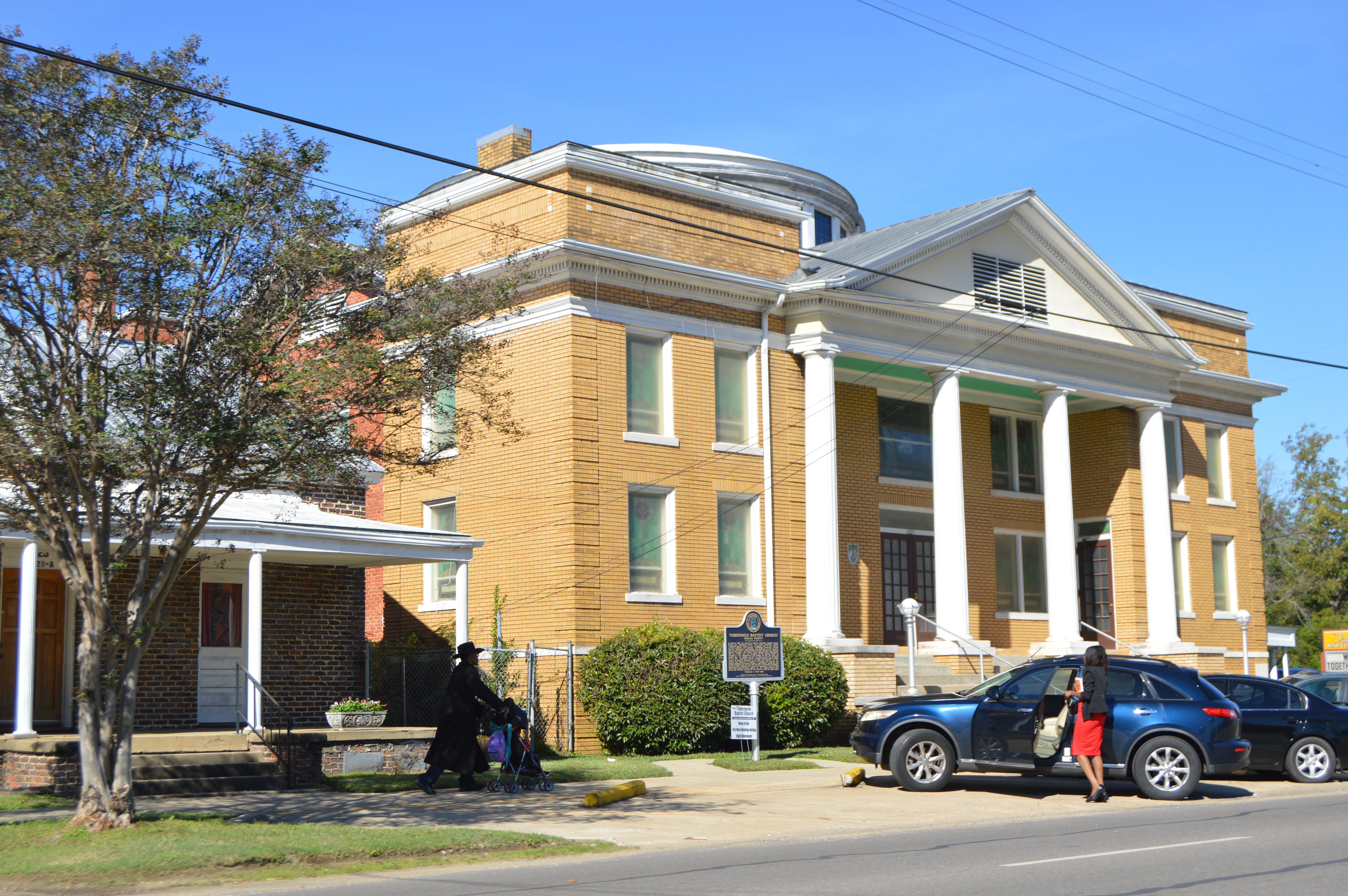 Front and southern side of Tabernacle Baptist Church, located at 1431 Broad Street in Selma, Alabama, United States. Built in 1922, it is listed on the National Register of Historic Places.